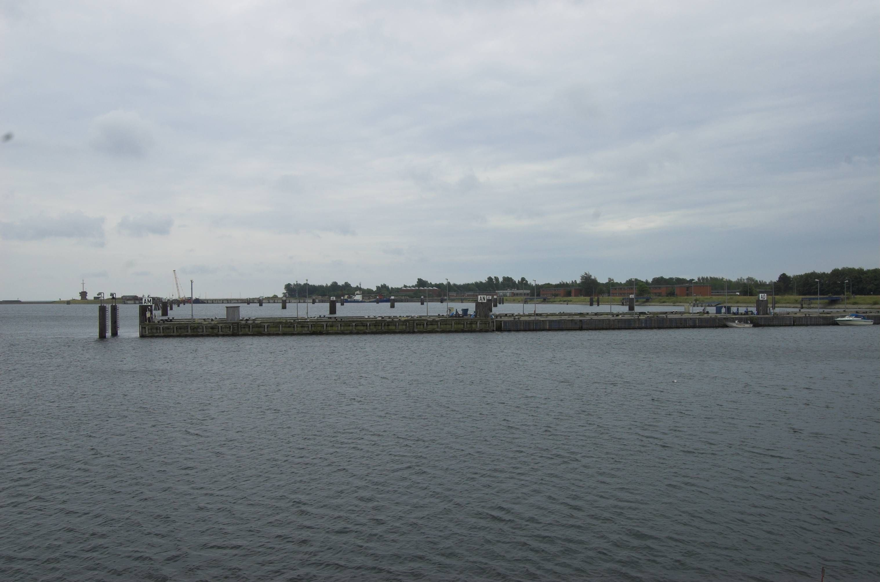 Harbour of the former military base Olpenitz